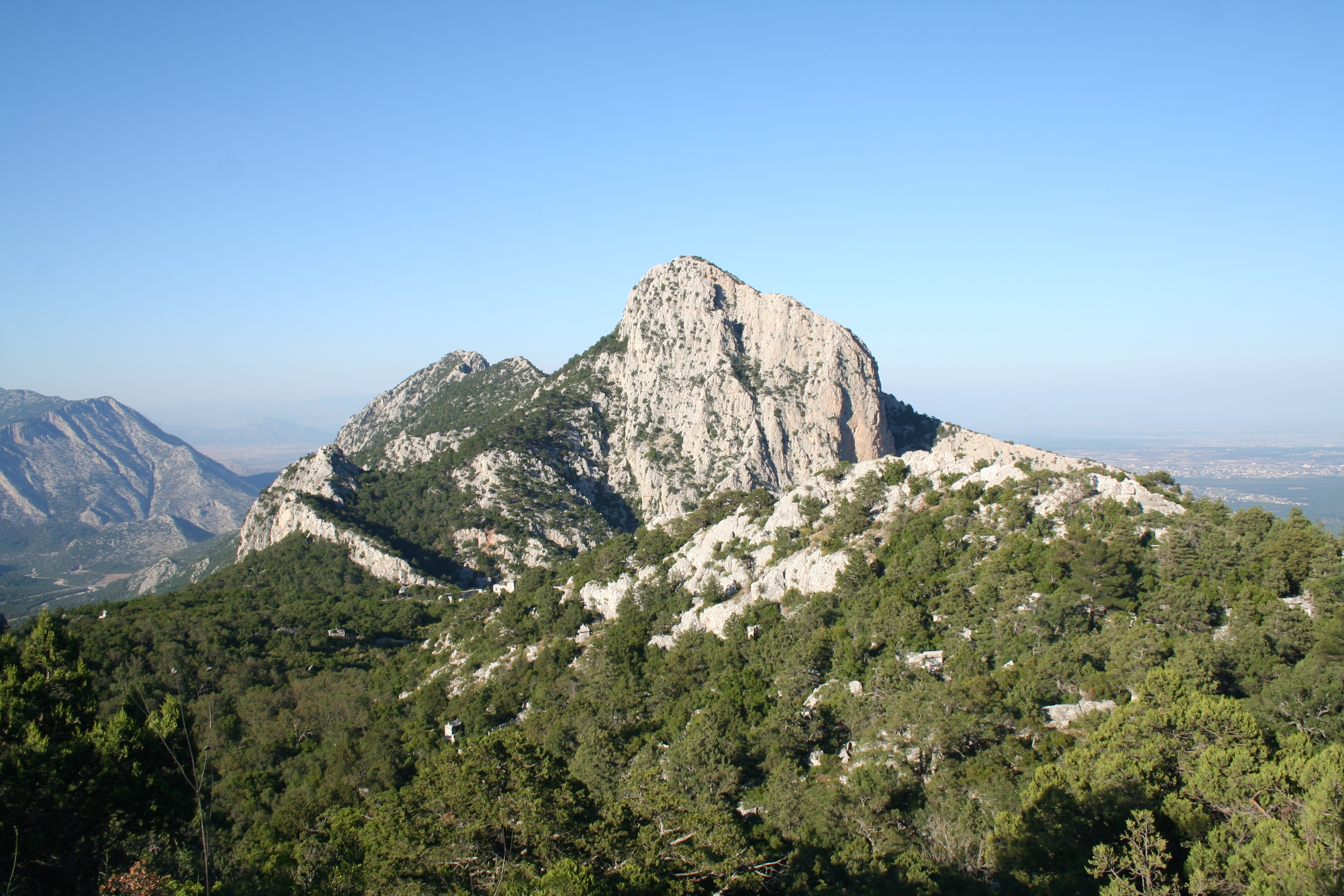 Termessos - Overview of upper city